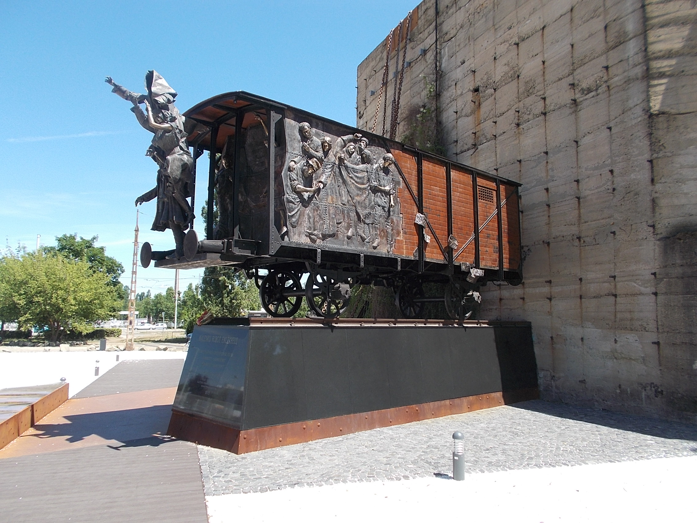 Forced labor of Hungarians in the Soviet Union Memorial Place by Péter Párkányi Raab sculptor and Gábor Birkás architect, 2017 wors in Ferencváros district, Budapest, Hungary.